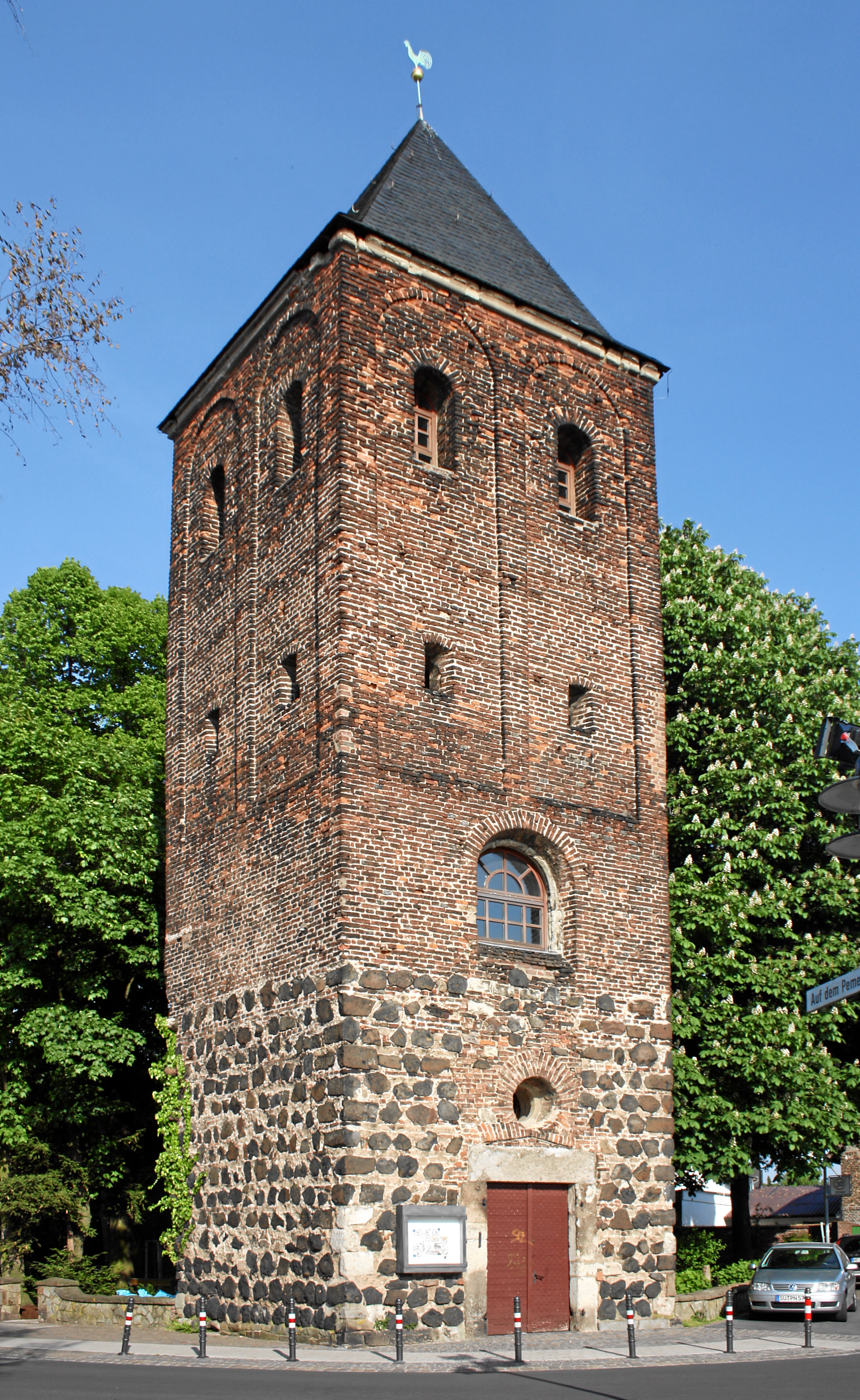 Niederkassel, Germany. Old tower of destroyed church Saint Jacob, view from South.